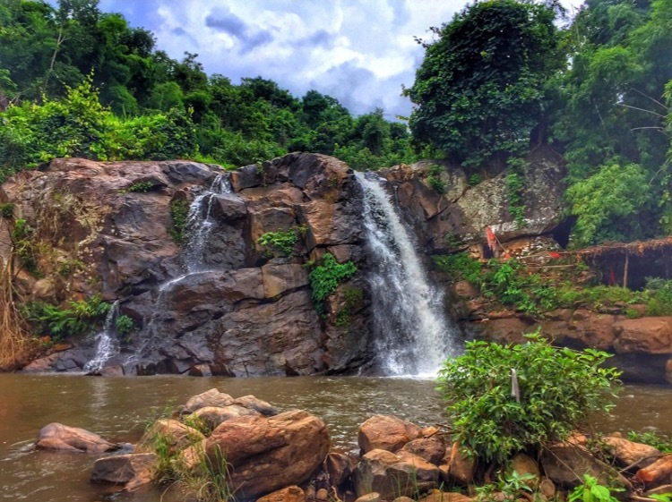 Rabandhara Waterfall, Kalahandi